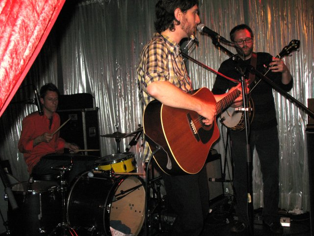 Great Lake Swimmers playing at the Tsunami Club, Köln, Germany